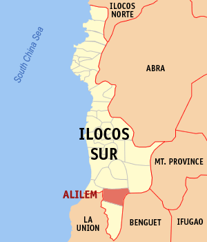 Map of Ilocos Sur showing the location of Alilem